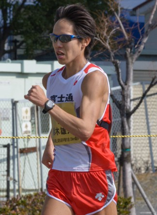 Yusuke Suzuki, Japanese racewalker